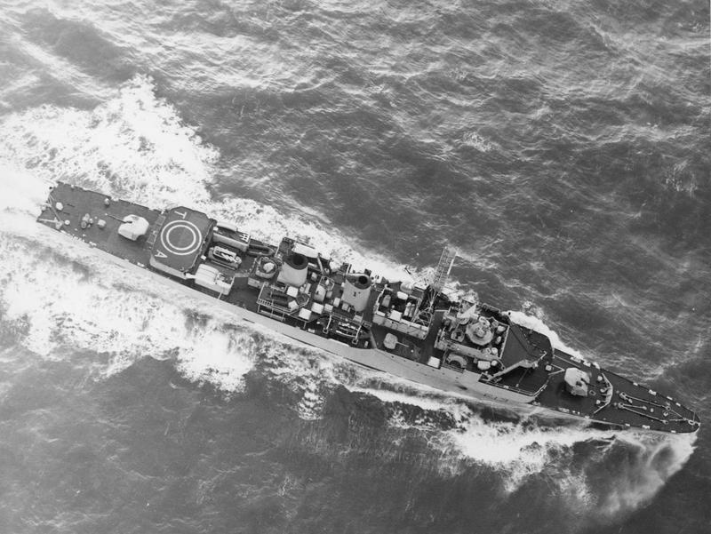 Aerial view of Tribal-class frigate HMS Tartar (F133). 1971 (IWM HU 130006)